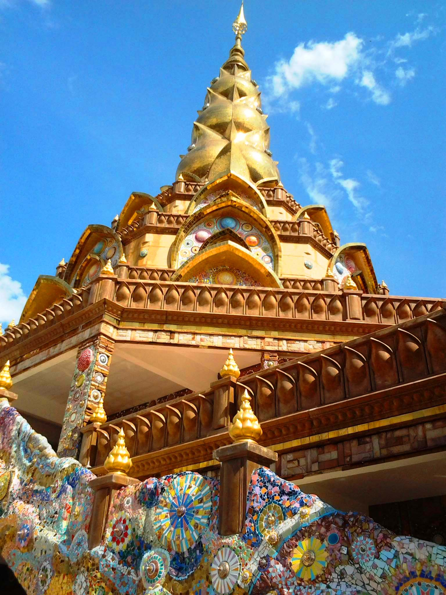 Wat Pha Sorn Kaew 05